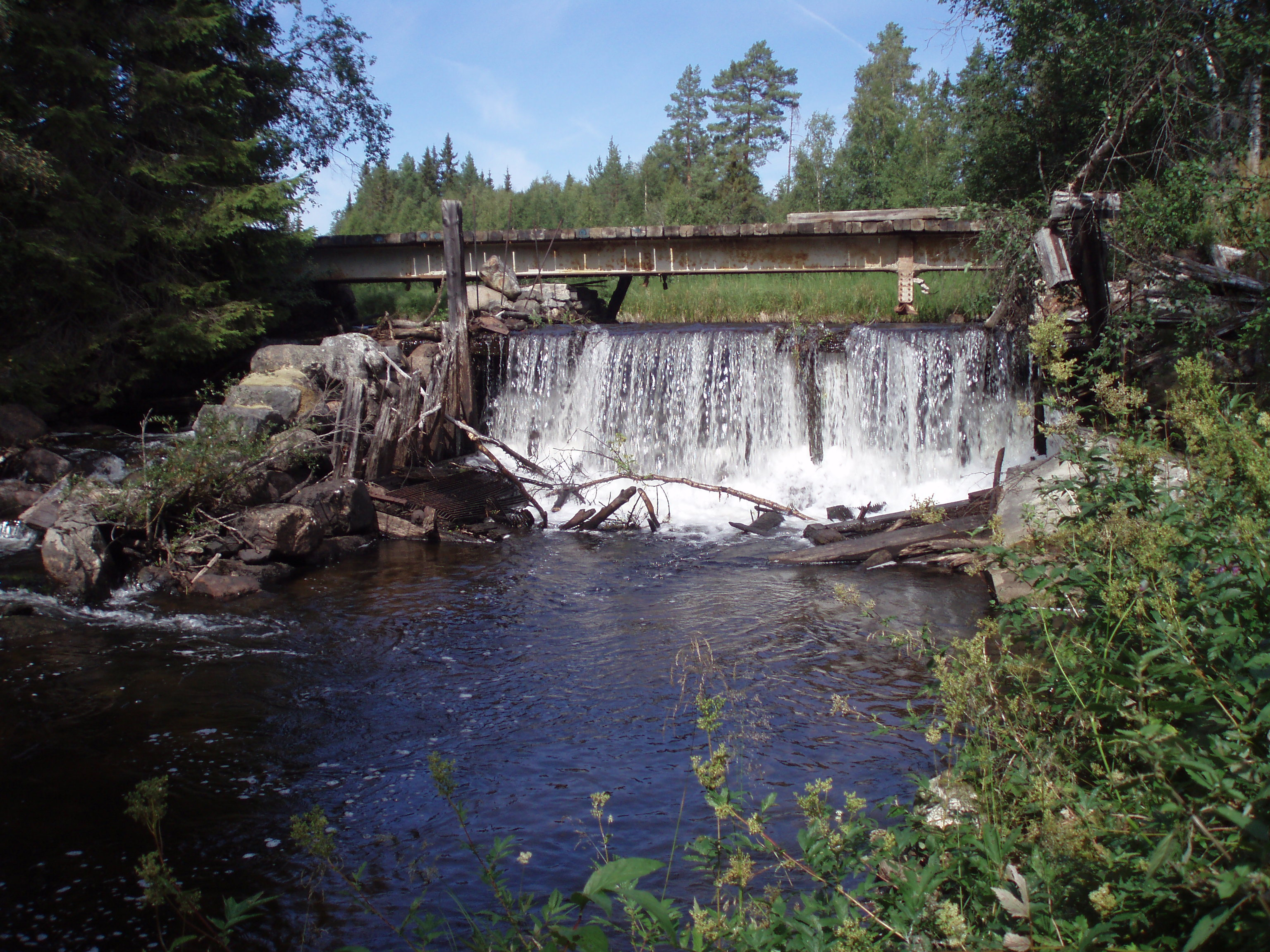 Nyland, Strömsund municipality, Sweden. A small hydroelectric station existed here for almost 30 year. Photo taken in aug. 2006 by me, User:Cucumber.